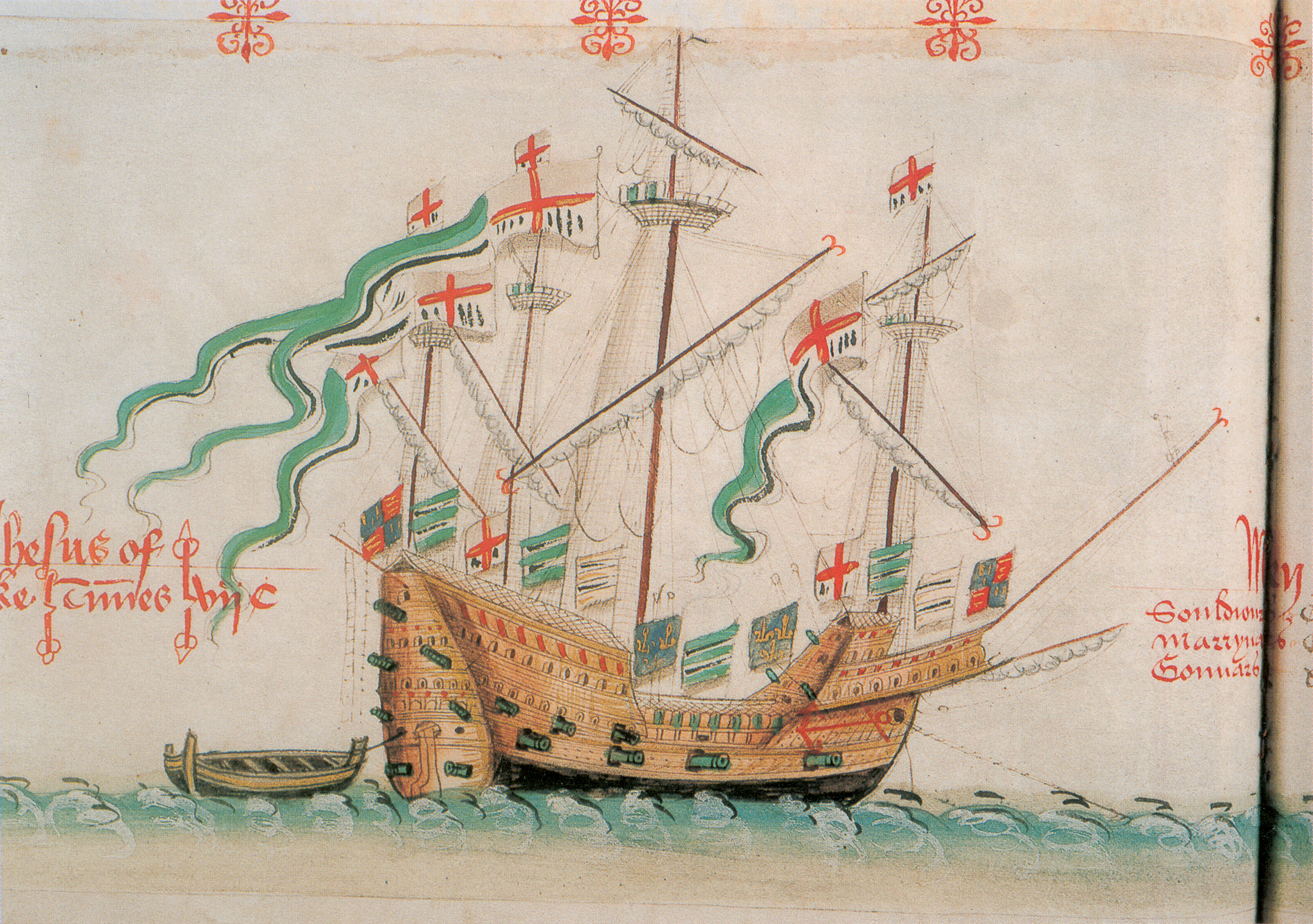 Illustration of the carrack Jesus of Lübeck. Notification about possible deletion